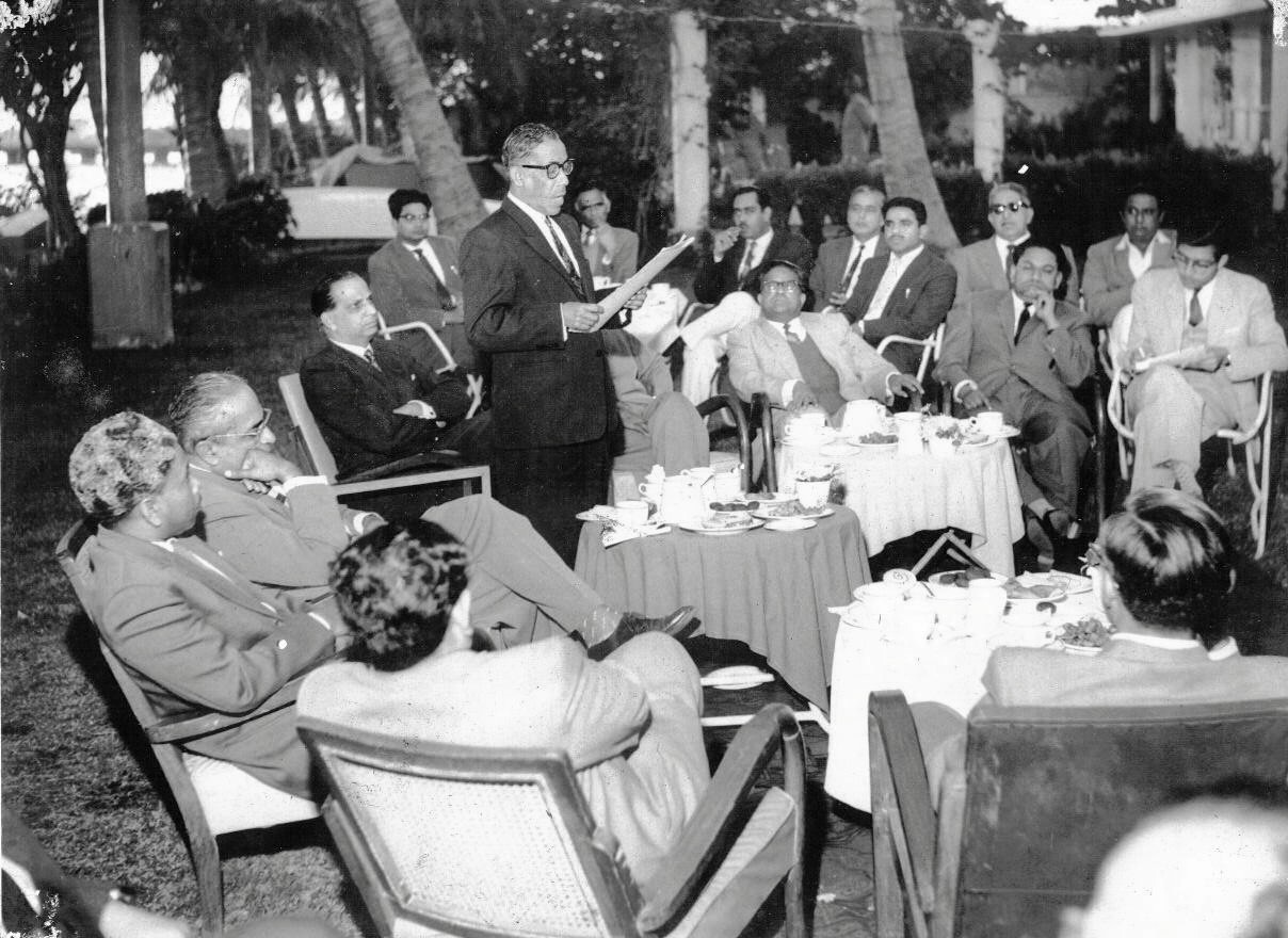 Khuda Buksh Addresses EFU Management